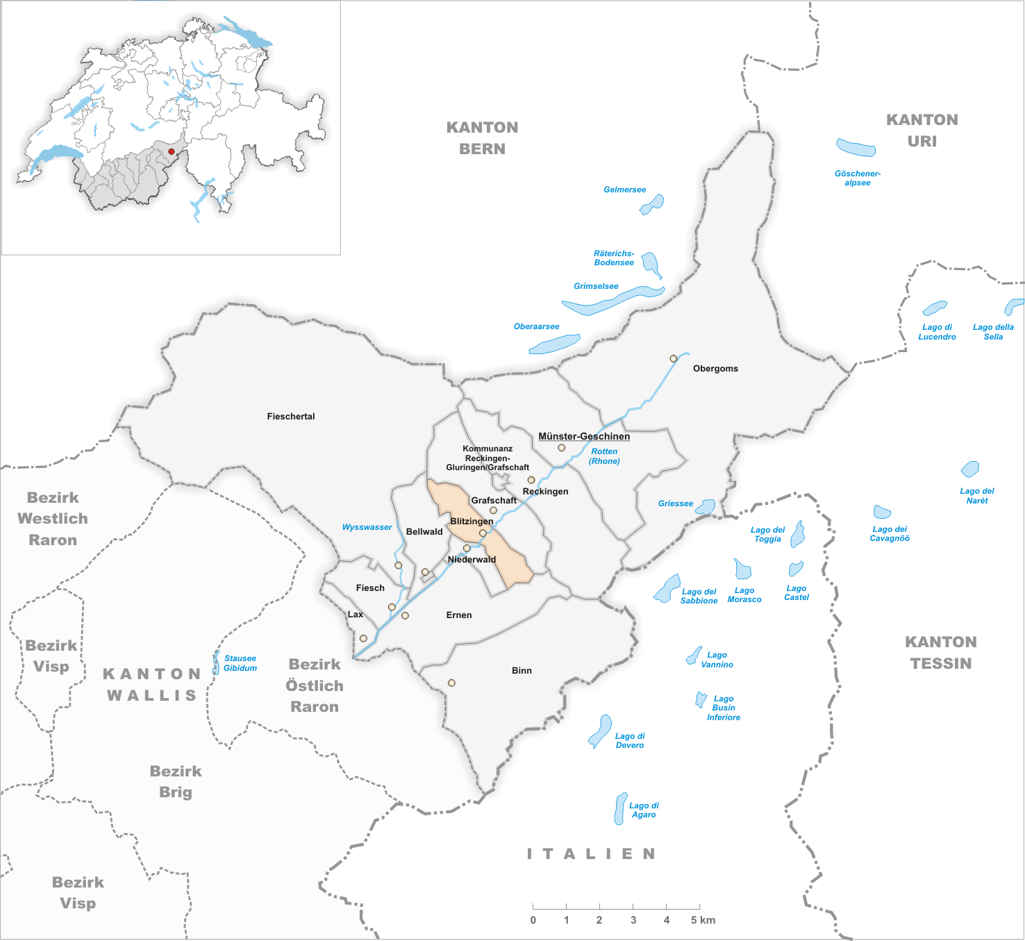 Municipality Blitzingen